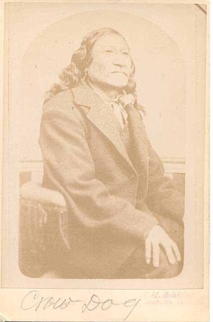 Lakota chief Crog Dog (1833–1910)